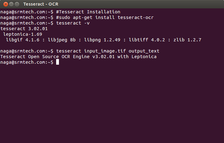 The latest stable version of Tesseract-OCR with its installation and Usage